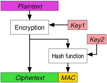 Authenticated encryption scheme "Encrypt Than Mac" (EtM)